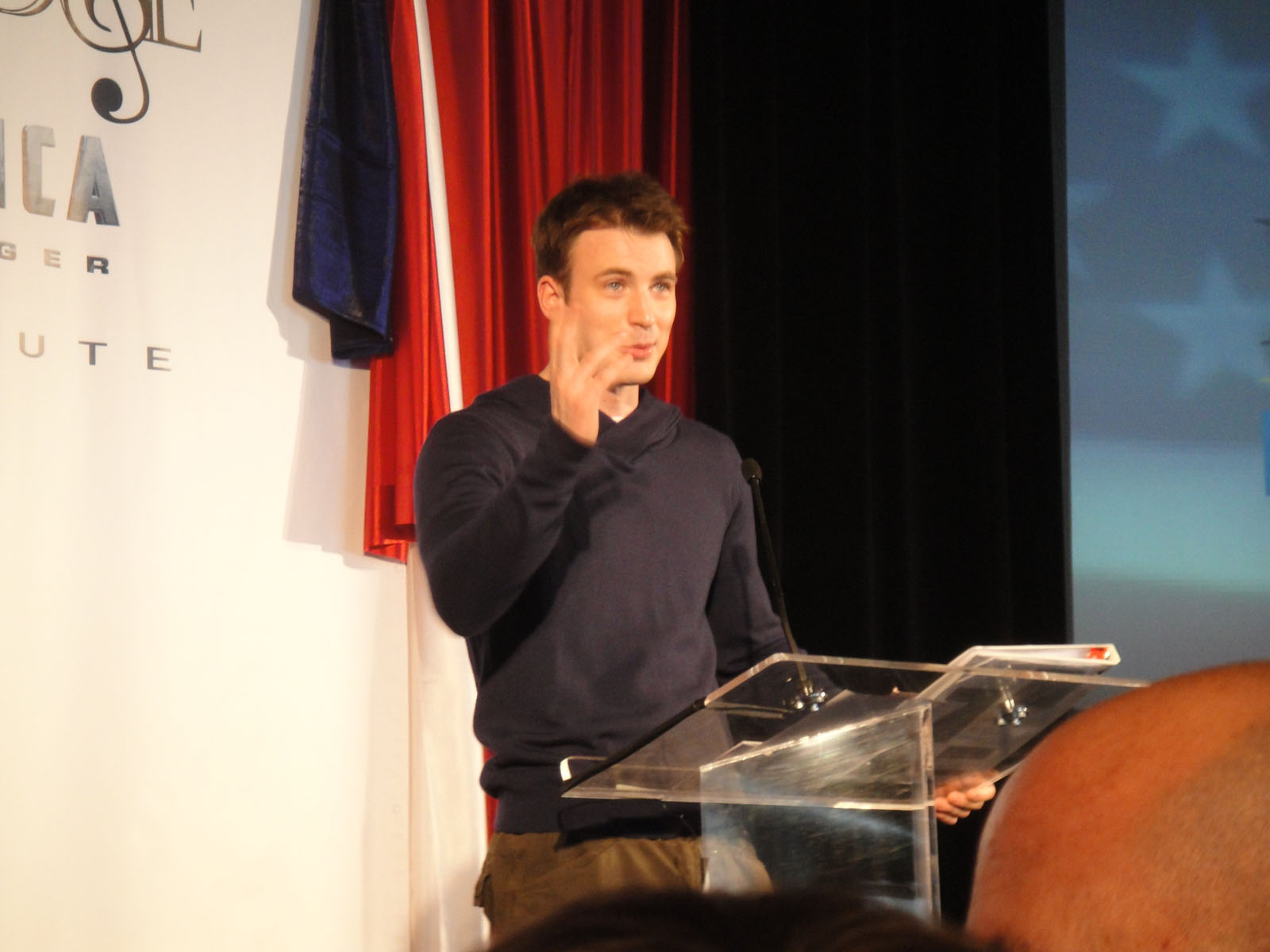 Chris Evans promoting Captain America: The First Avenger at San Diego Comic-Con International during the Military Salute.